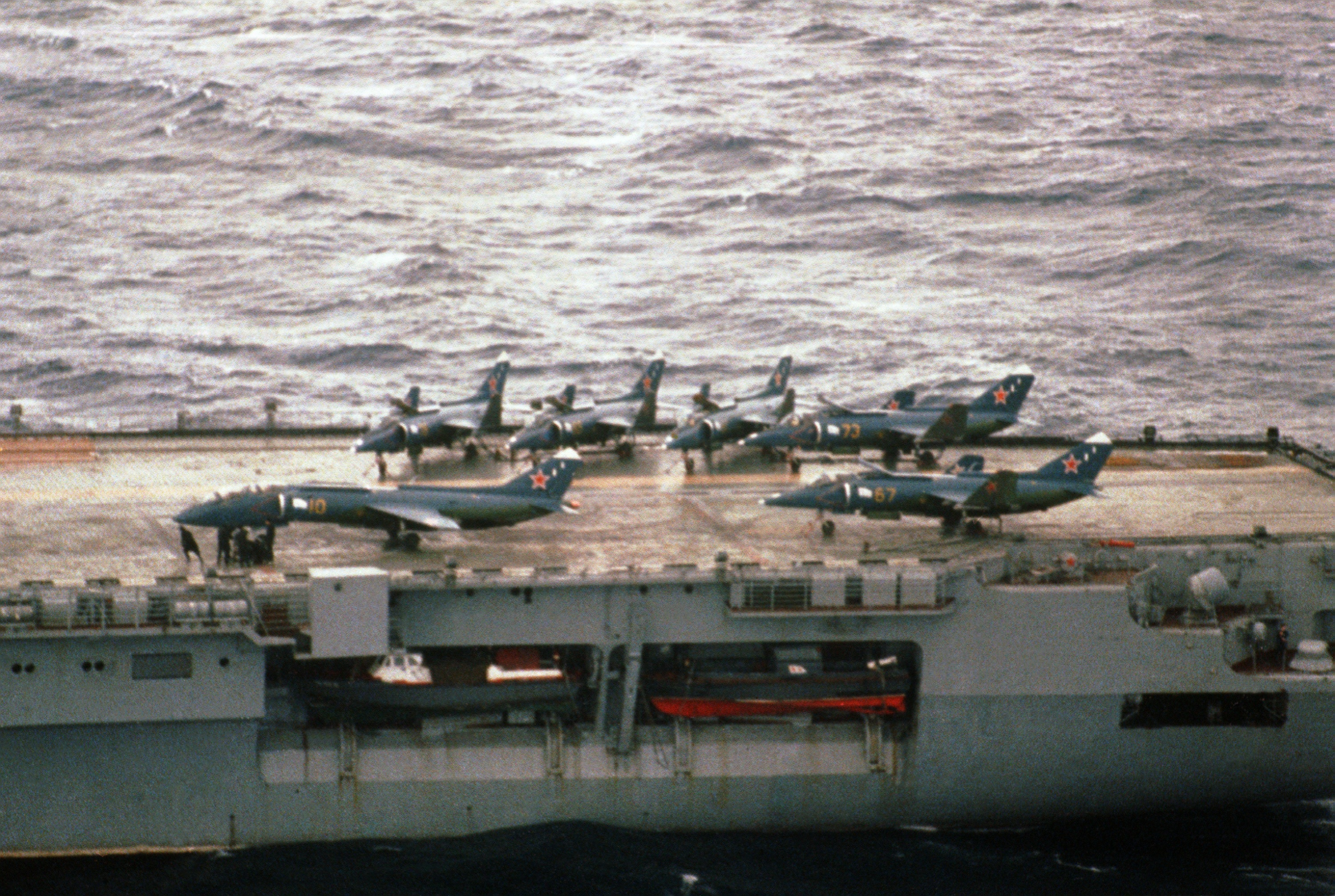 Yak-38 aircraft are parked on the stern of the soviet aircraft carrier KIEV (CVHG).